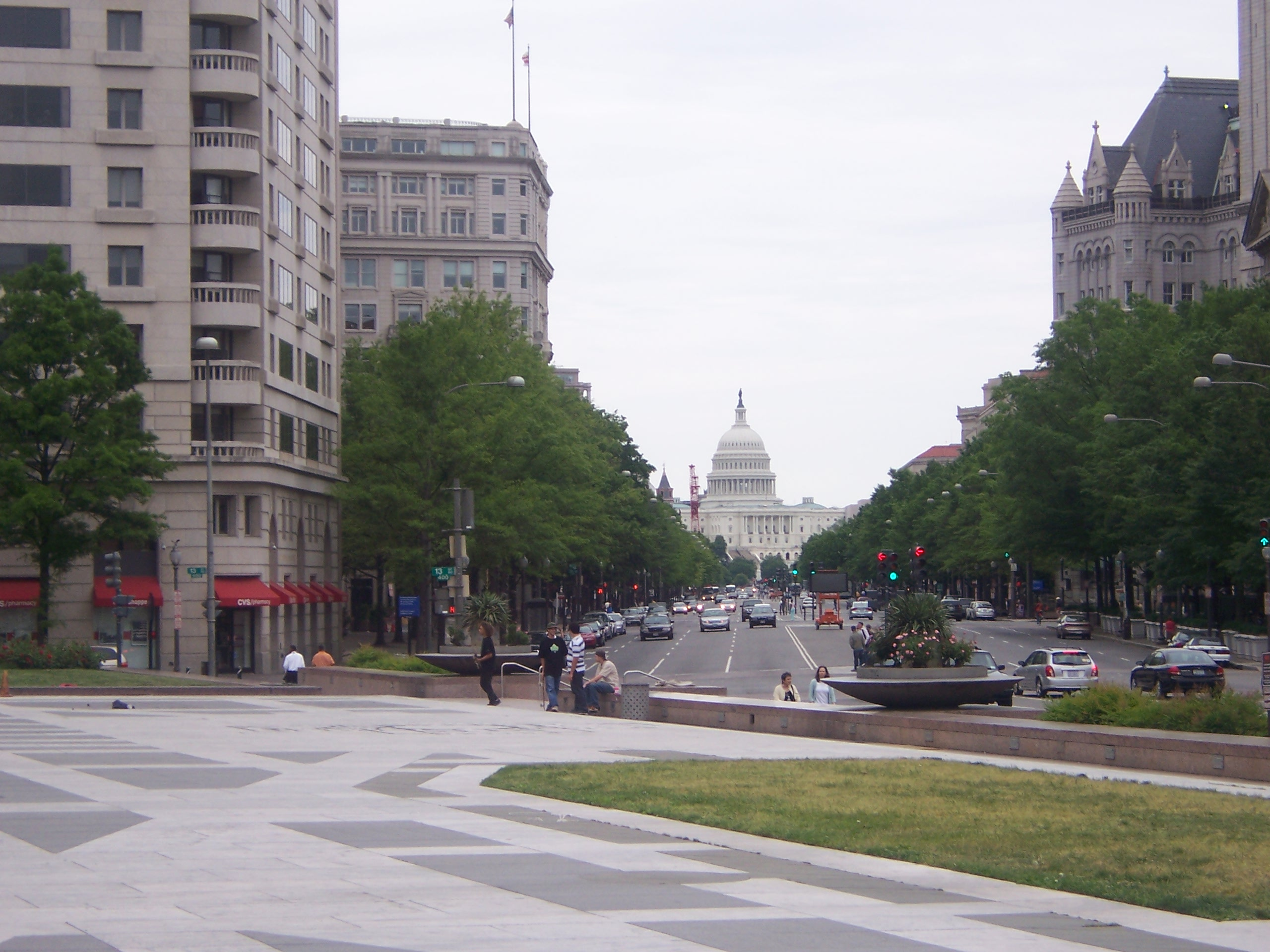 A view of the caital building looking down Pennsylvania avenue from 14th street.